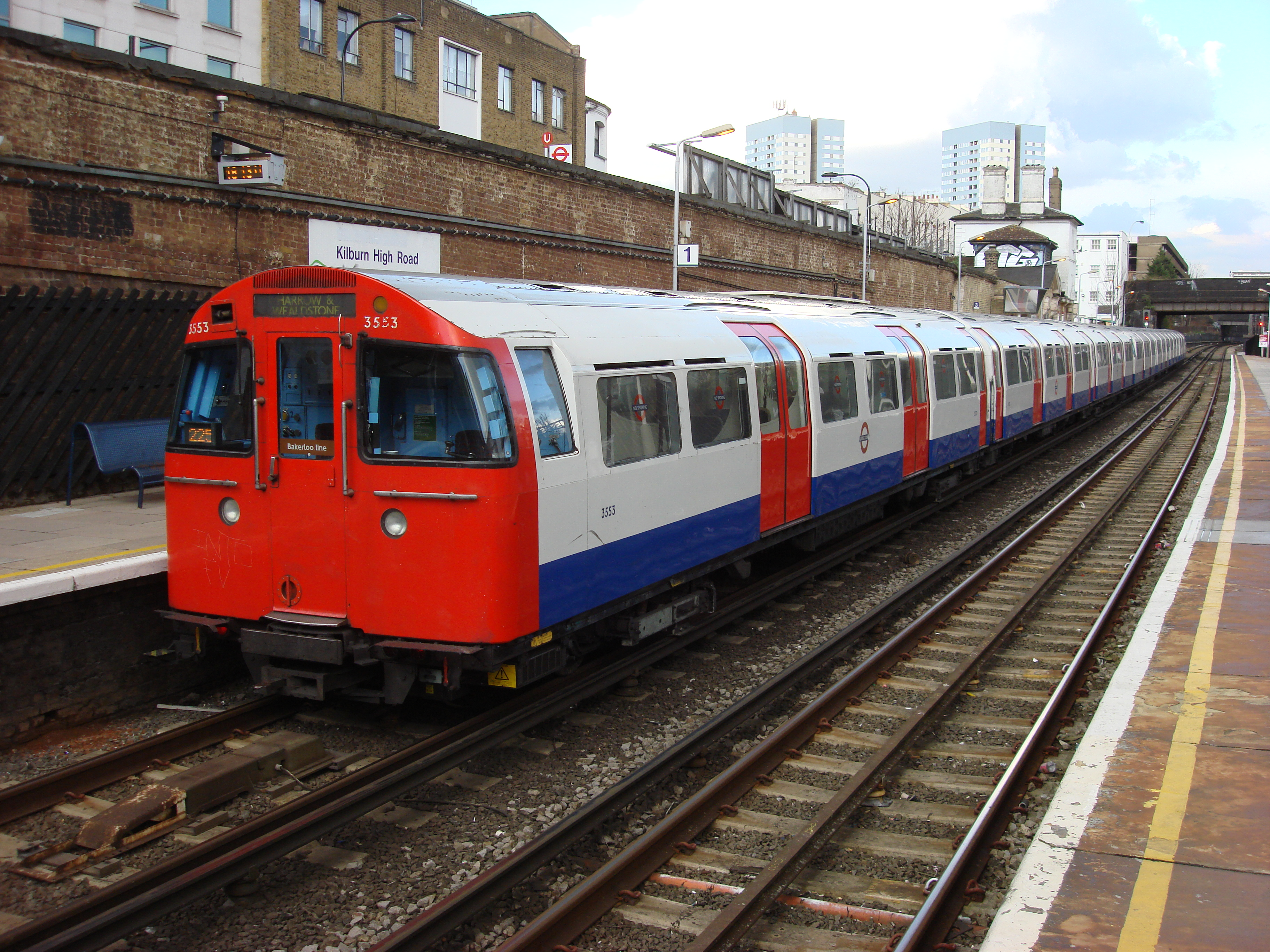 London Underground trains do not pick up or drop off passengers at Kilburn High Road railway station. The station appears on internal London Underground (LU) maps as it is used as a reversing point by Bakerloo Line trains when they are unable to enter the LU platforms at Queens Park station due to scheduled work or failures and/or are prevented from reversing in the Up DC line platform there; the fourth rail (bonded to the traction current return rail) continues to Kilburn High Road to permit these manoeuvres but the carrying of passengers to Kilburn High Road by LU tube trains is not permitted as the platform height is matched to NR trains (platforms on this line north of Queens Park station are positioned at a "transition" height which is higher than that for normal LU platforms and lower than NR platforms). There are also one or two "rusty rail" journeys made by LU trains each day to keep the fourth rail clean for the relatively infrequent unscheduled diverted LU trains. This image shows a unit of London Underground 1972 Stock on one of these movements.